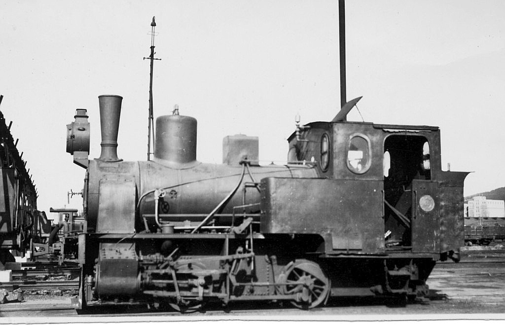 SA Harbour locomotive 0-4-0 No. 69 (ex Hollandse Anneming Maatschappij) Builder's No. Orenstein & Koppel 3019 Location: Paardeneiland, Cape Town An Orenstein & Koppel loco purchased by the SA Railways from the Hollandse Anneming Maatschappij that had used it during the Foreshore Reclamation in Cape Town